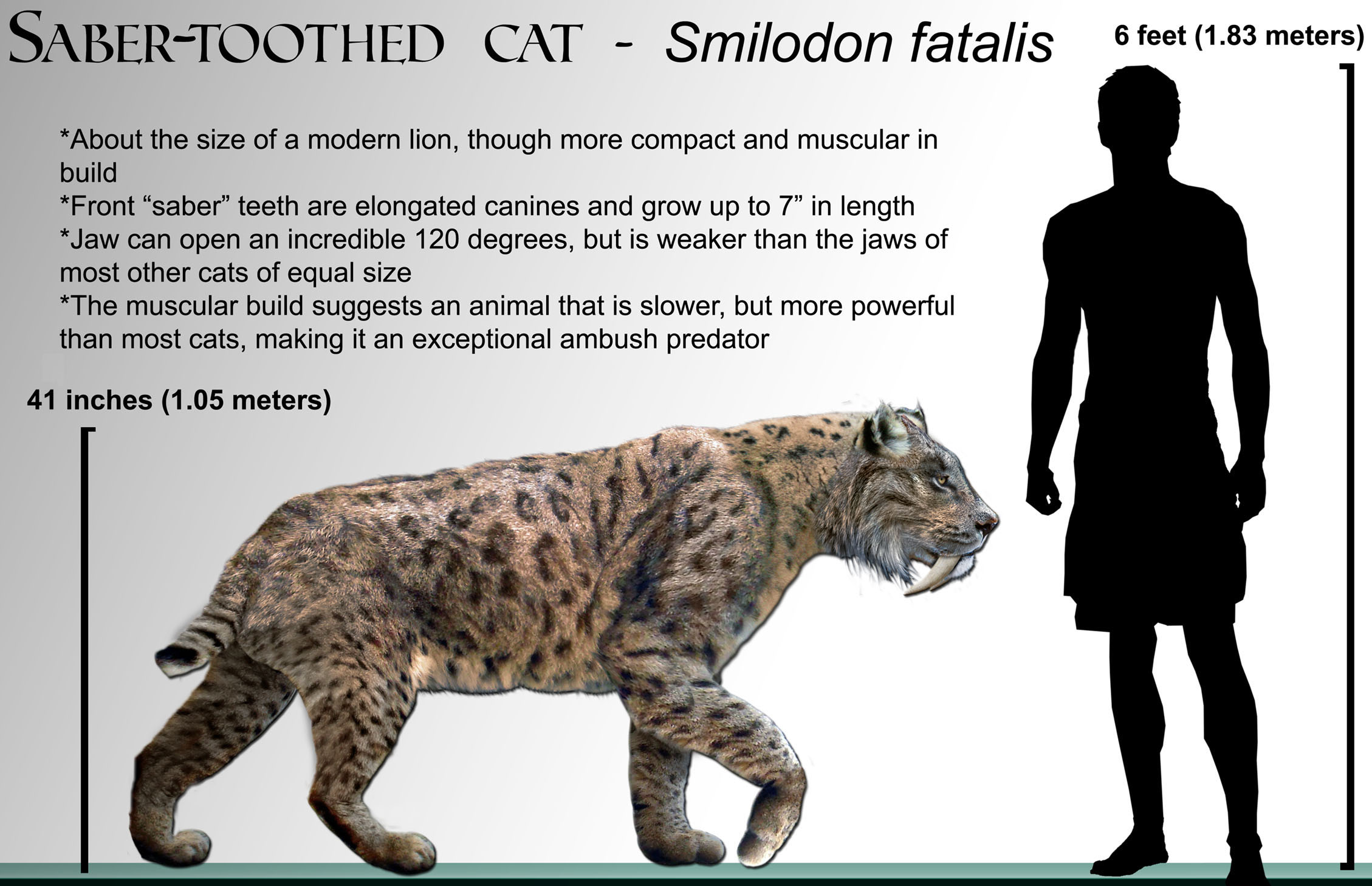 Smilodon fatalis life-restoration